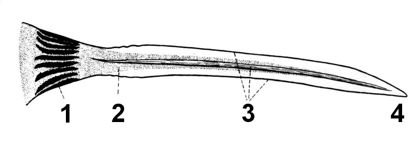 Drawing of love dart Helix pomatia. 1 - base, basal widening 2 - inner antrum/cavum/chamber/vacuity/void/cavern/cavity 3 - longitudinal edges (those ones that are those four edges visible on the cross section.) 4 - apex/tip/ and so on....